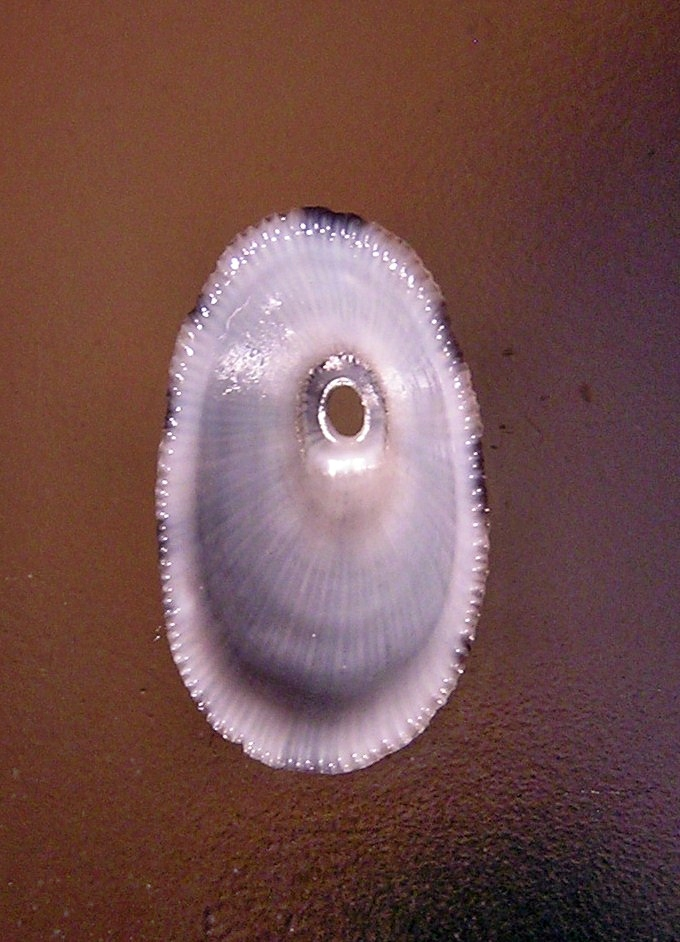 Diodora inaequalis (G.B. Sowerby, 1835); family Fissurellidae; Mexico